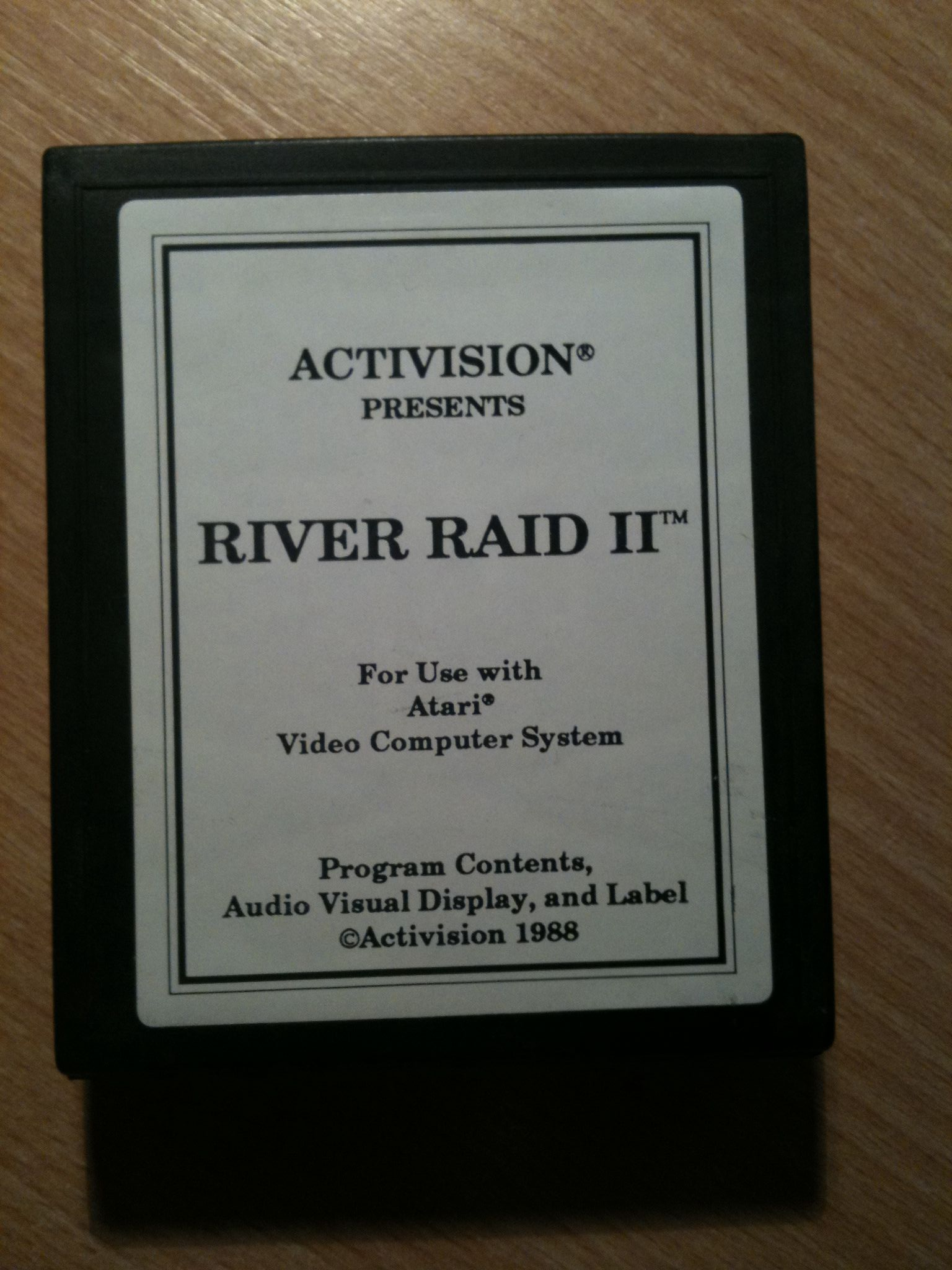 Atari 2600 Cartridge of the Game RiverRaid 2